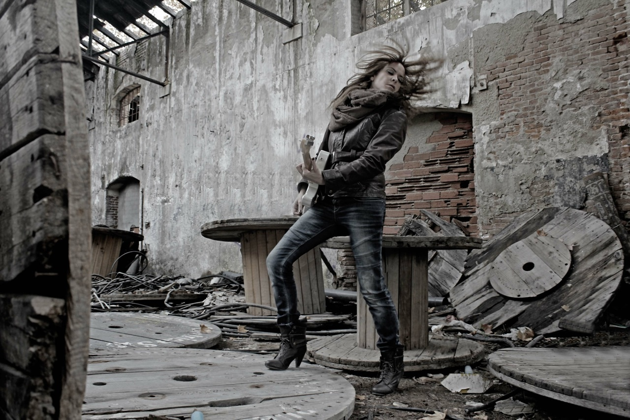 Patricia Balmes Oficial